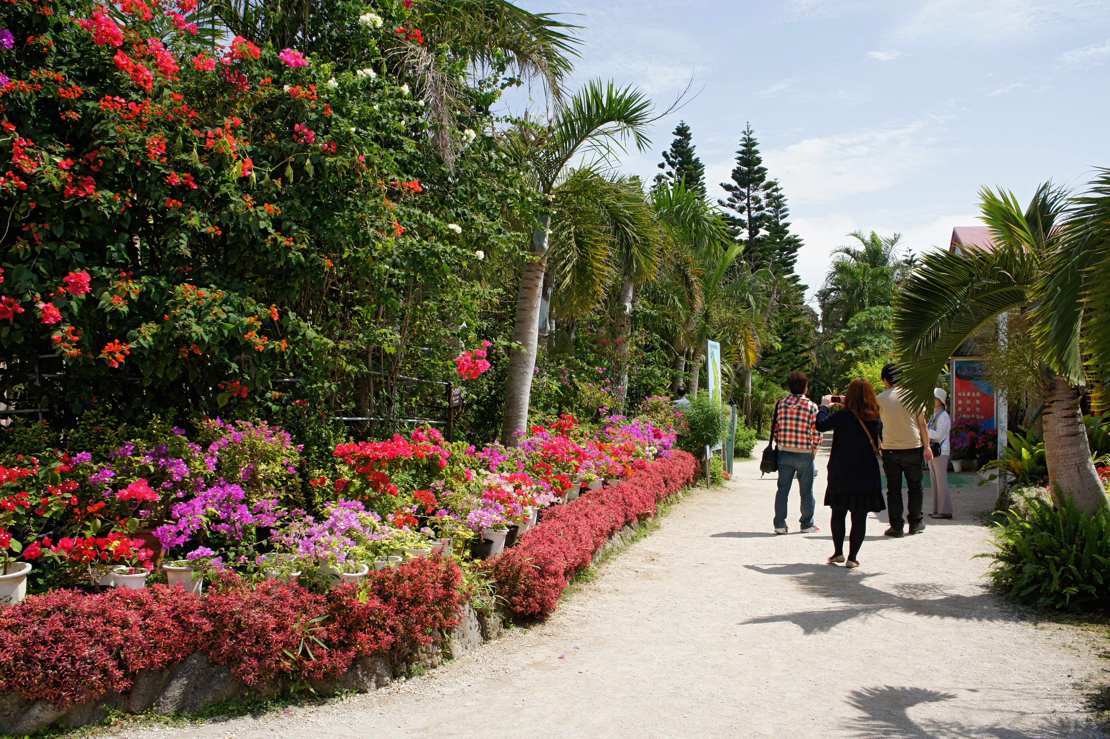 at Subtropical Botanical Garden, Yubu Island in Taketomi Town, Okinawa Prefecture, Japan.